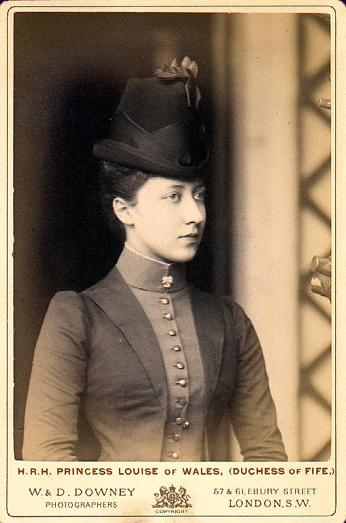 Louise, Princess Royal, Duchess of Fife